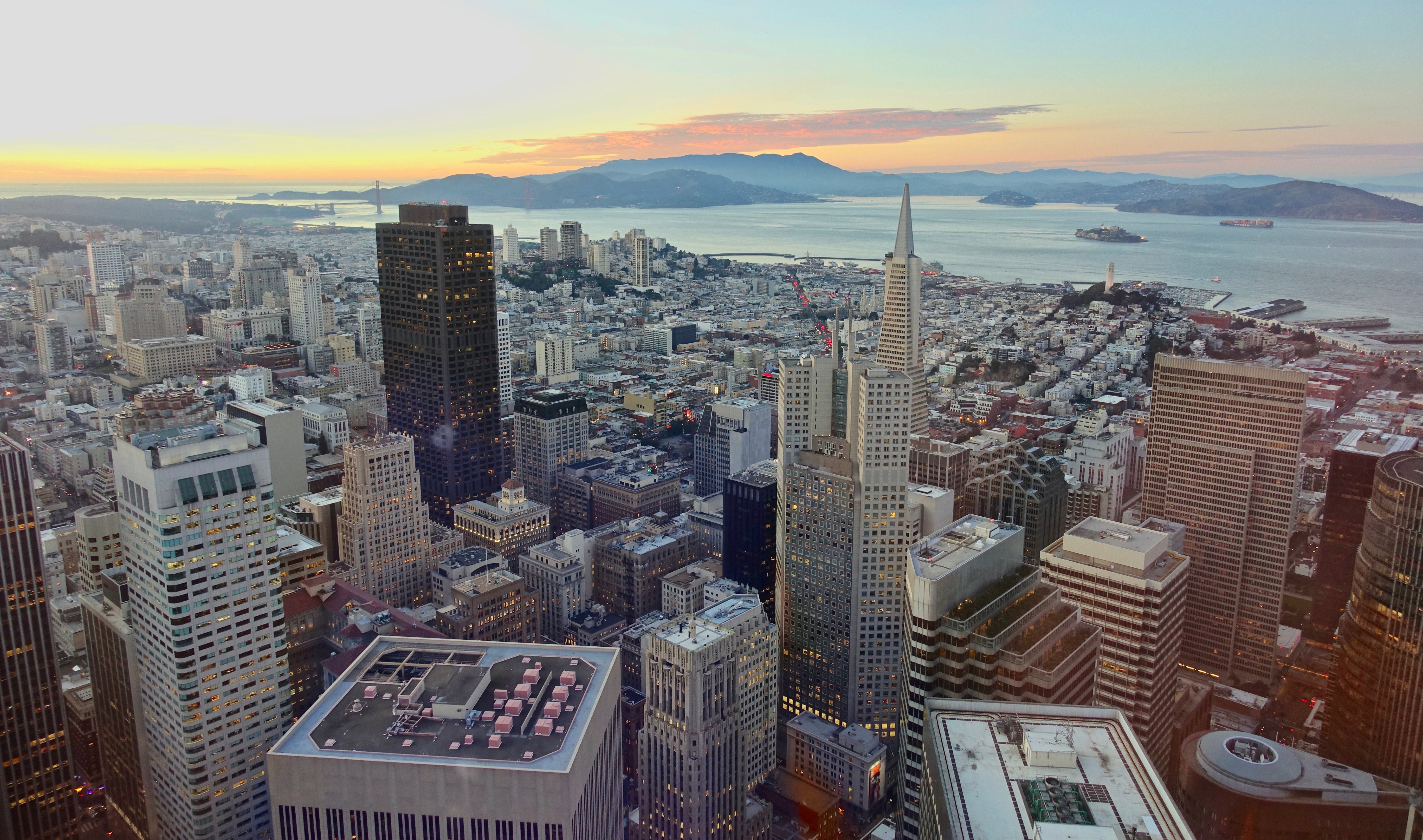 San Francisco Sunset from the top of SalesForce Tower.